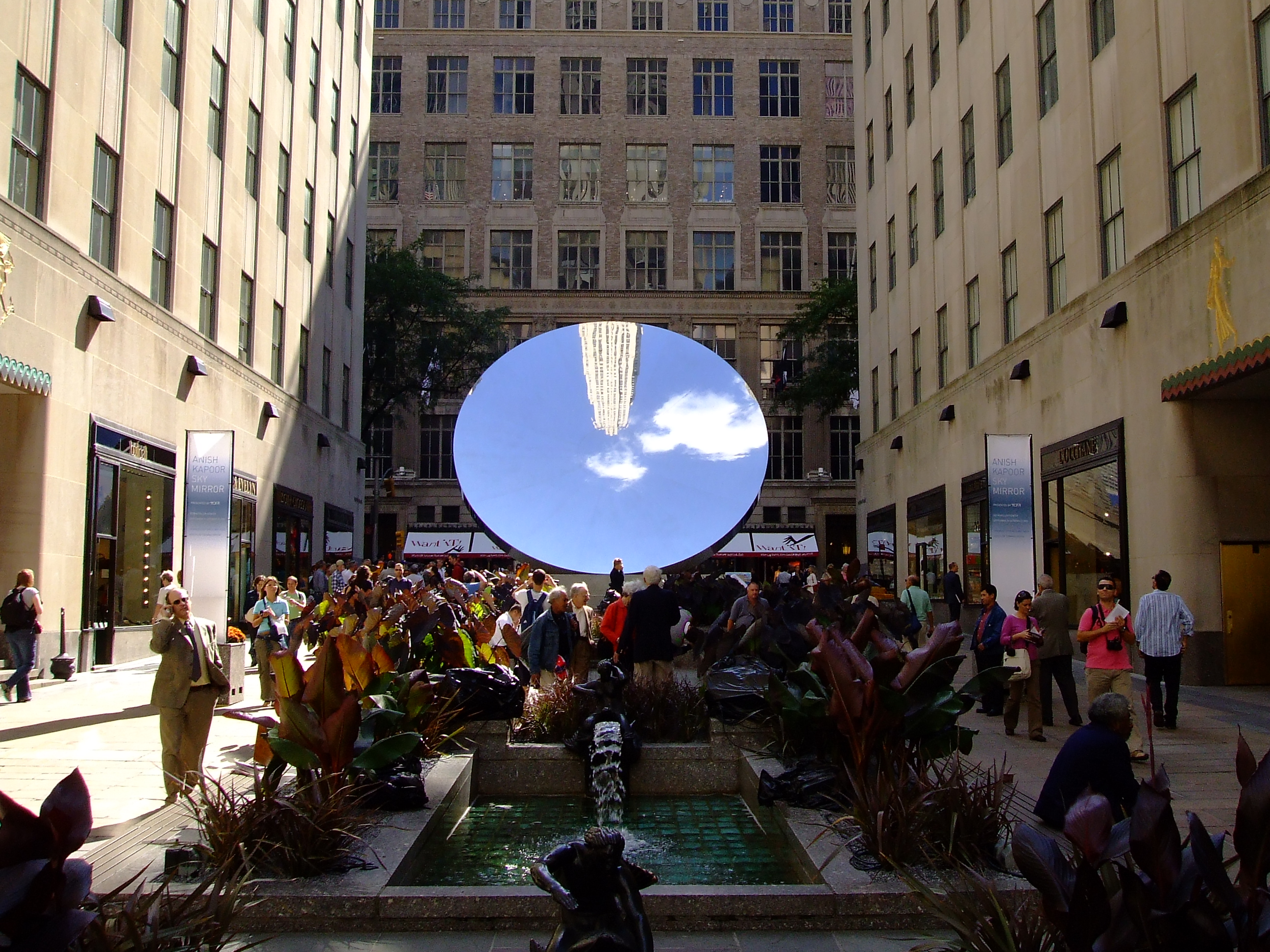 Brad Patrick took this photograph on September 20, 2006 in Rockefeller Center, NYC.